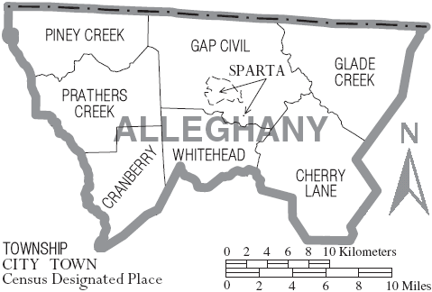 Map of Alleghany County, North Carolina, United States with township and municipal boundaries